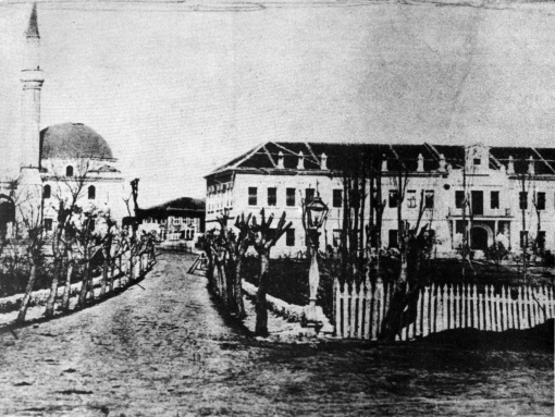 Old Sofia and old council house, 1879